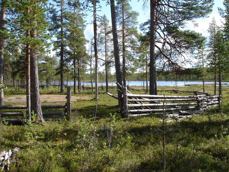 On the northern side of lake Sundtjärnen an old enclosement for reindeer has been restaurated. Forest Sami reindeer herding has been practised here during a long time.